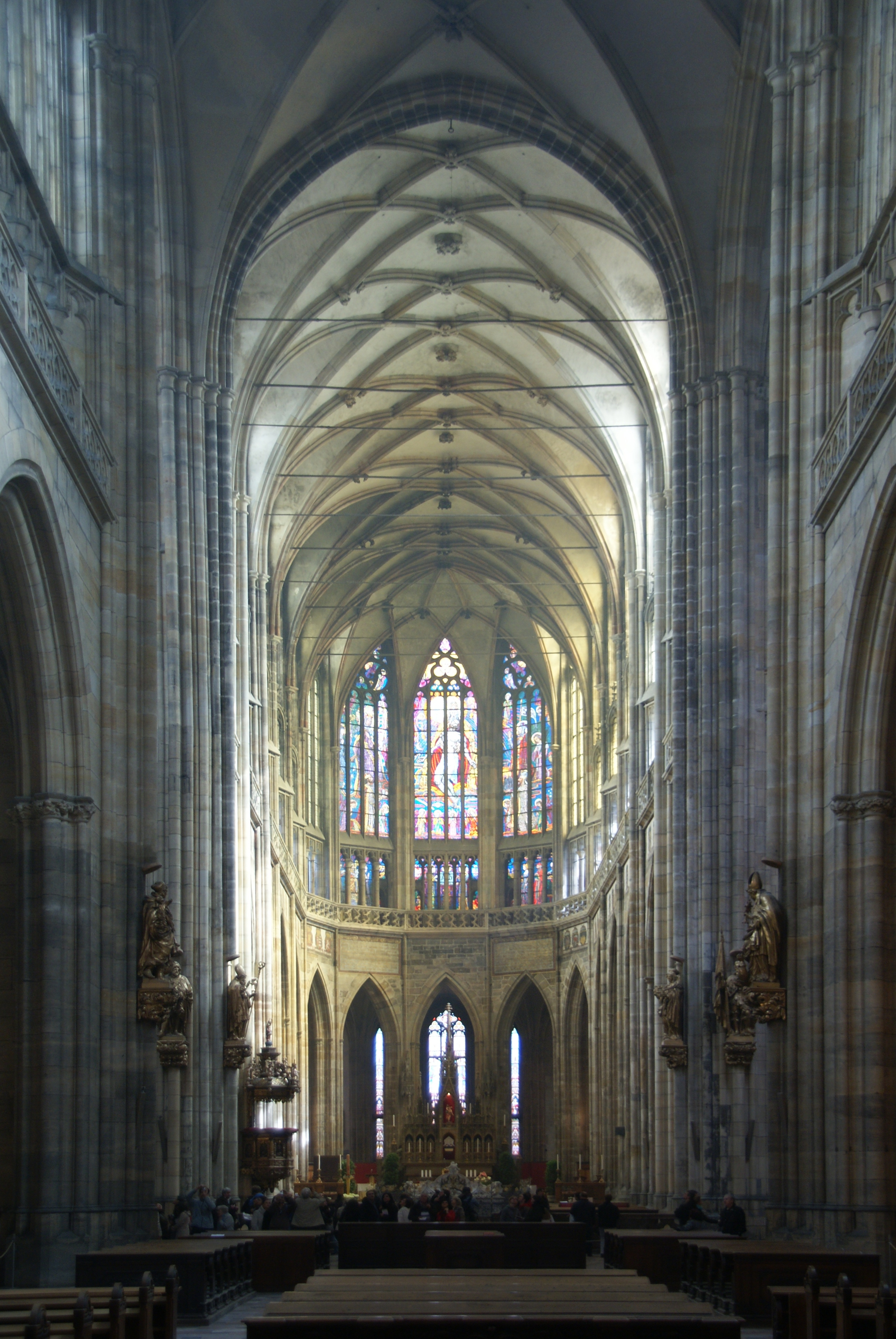 St. Vitus Cathedral (interior), Prague